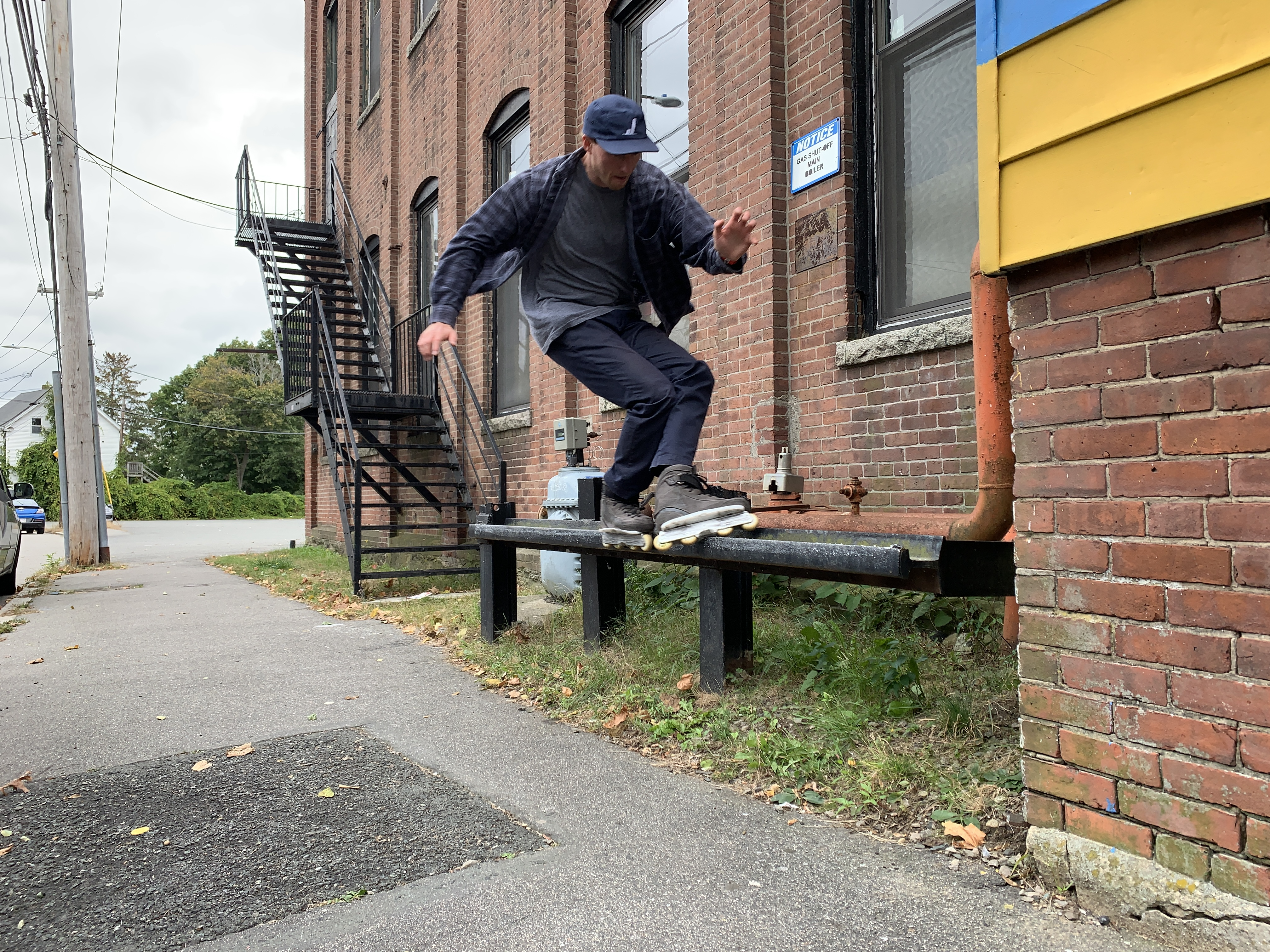 An aggressive inline skater performing a neg acid in Boston, Massachusetts.